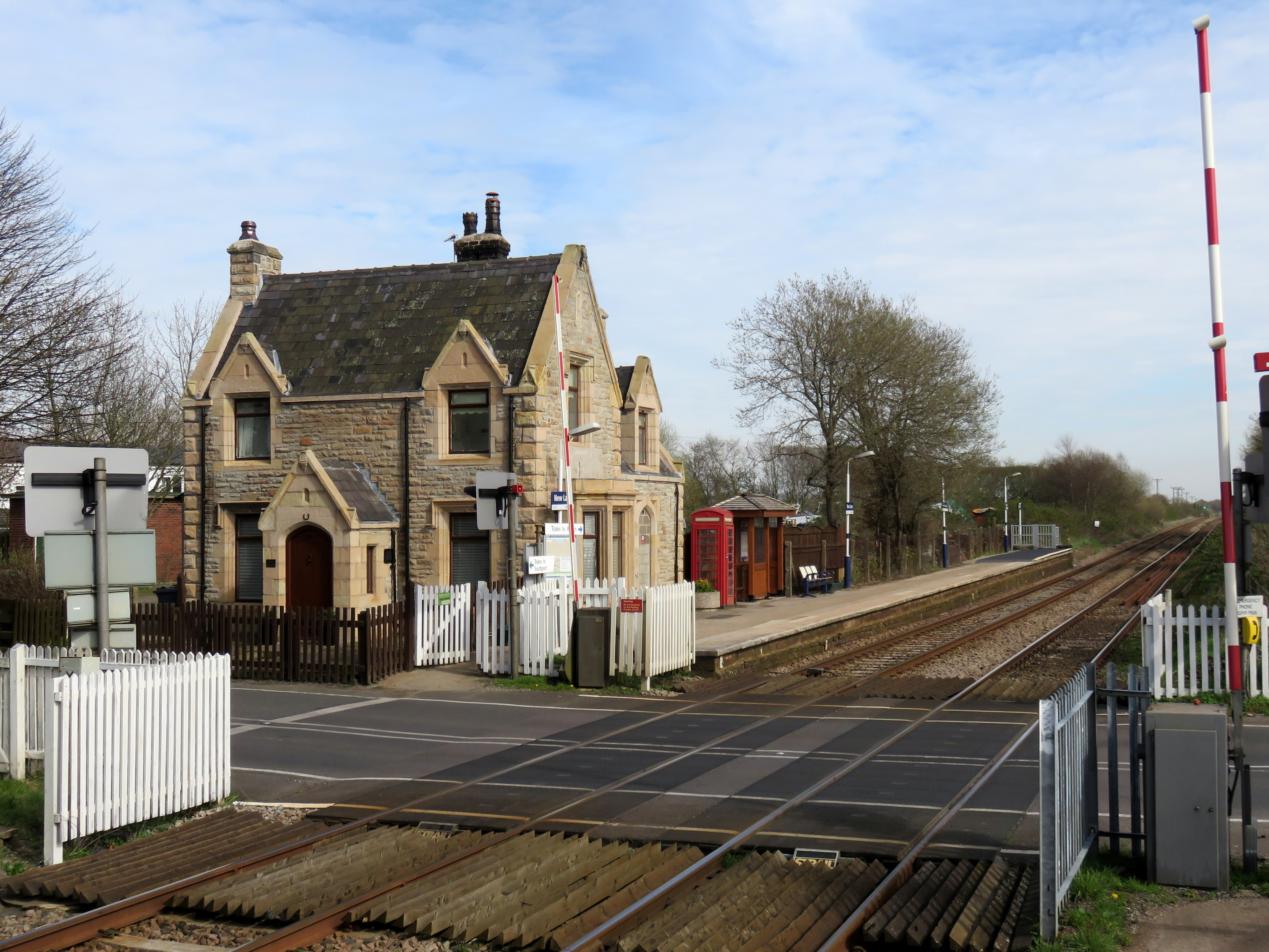 New Lane railway station in Burscough, on the Southport to Manchester Line. Compare with a similar view of the station in 2007.